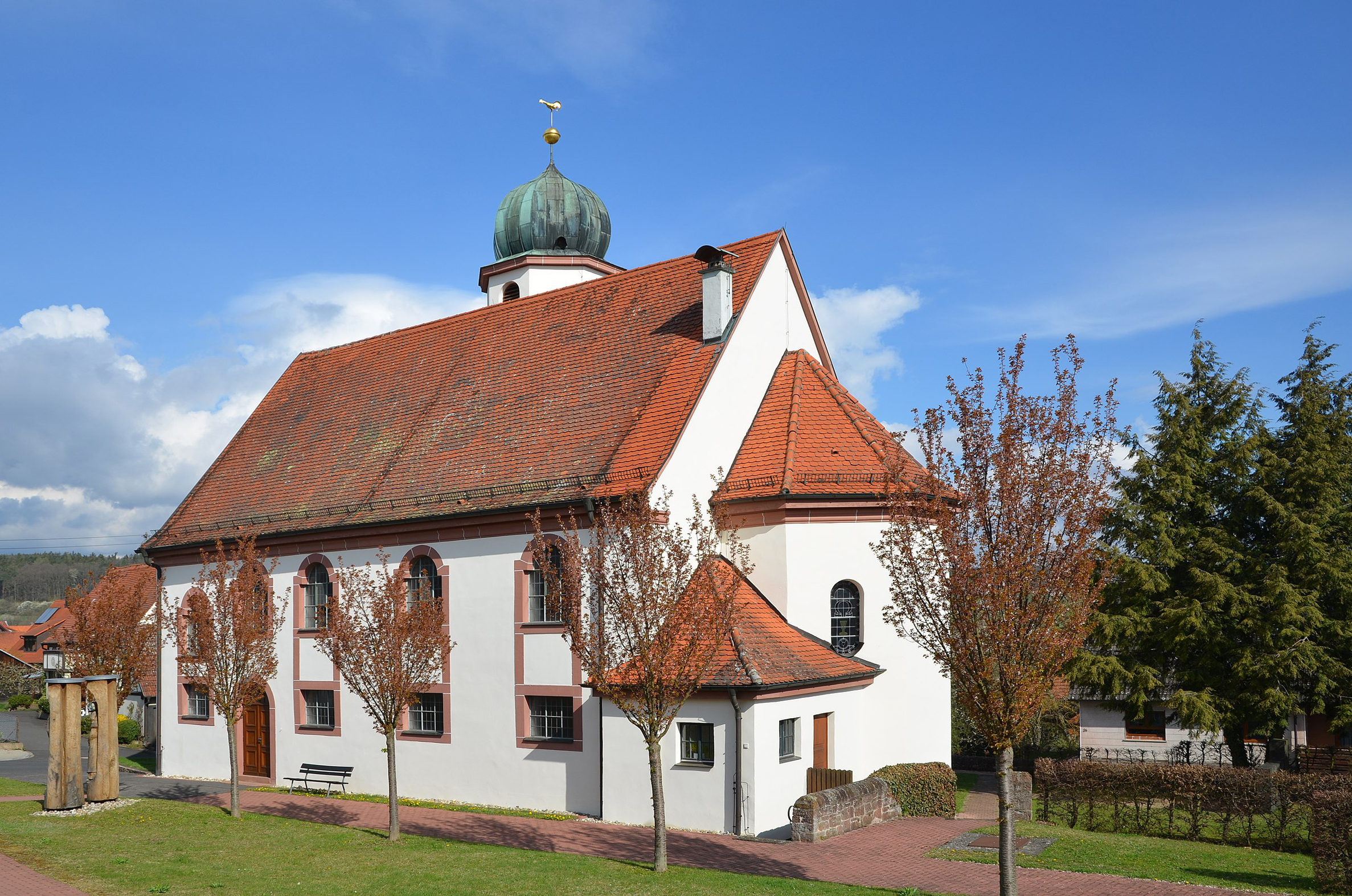 evang.-luth. Christuskirche in Glasofen